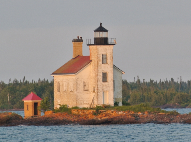 photograph of the Gull Rock lighthouse (note two Bald Eagles on chimney), in Michigan, near Manitou Island. This lighthouse is off the northern tip of the Keweenaw peninsula in the upper peninsula of Michigan. Photo taken from the deck of the Isle Royal Queen IV during a Nature Conservancy charter trip. The boat is a passenger ferry that operates between Copper Harbor, Michigan, and Rock Harbor at Isle Royale National Park.